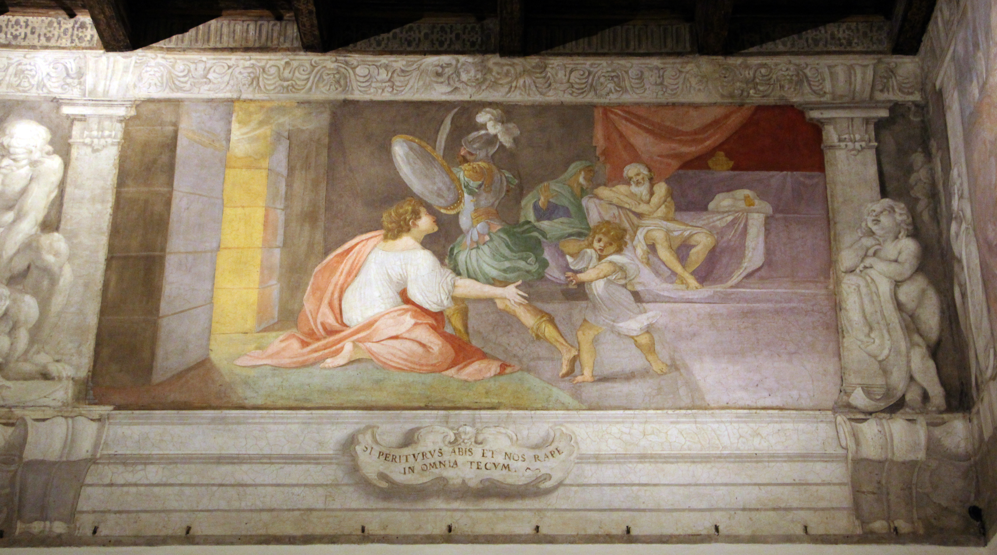 Frieze of Aeneas by the Carracci family